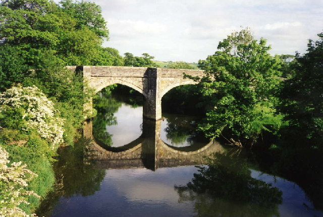 Higher New Bridge over the River Tamar, between St Stephens by Launceston in Cornwall, and St Giles on the Heath in Devon